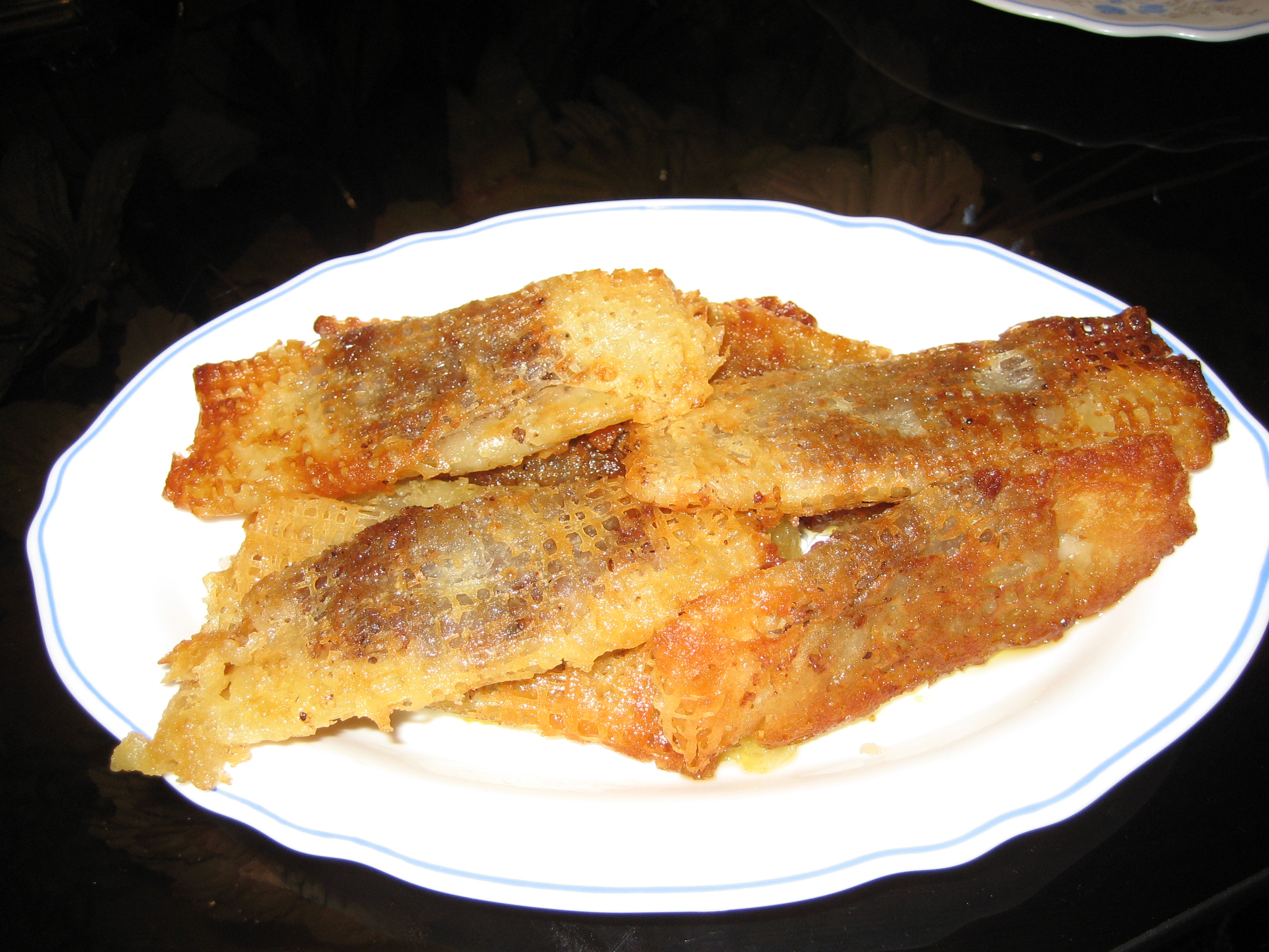 Reshteh Khoshkar, north Iranian sweet snack